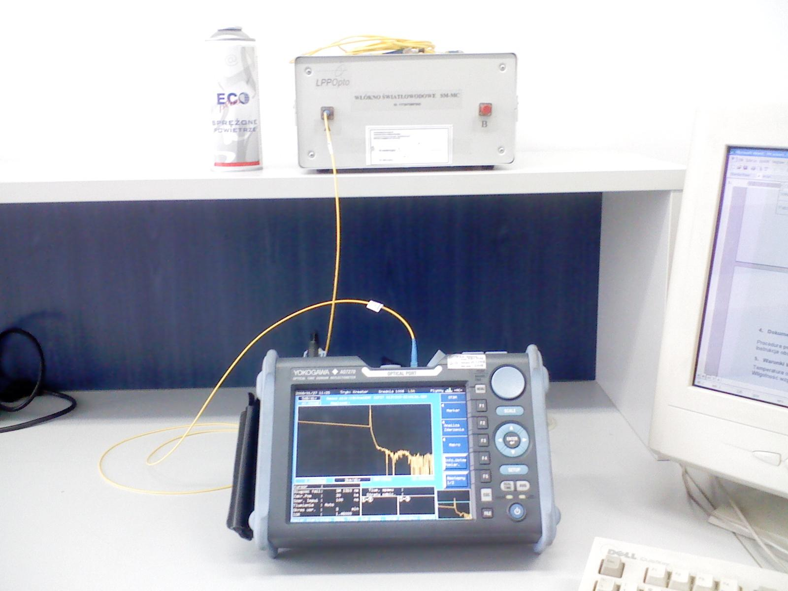 Optical time-domain reflectometer Yokogawa AQ7270 on the calibration stand.